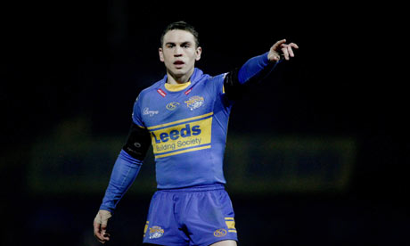 yjuyfkfyuyfufk ئۇيغۇرچە / Uyghurche: kyukyuk